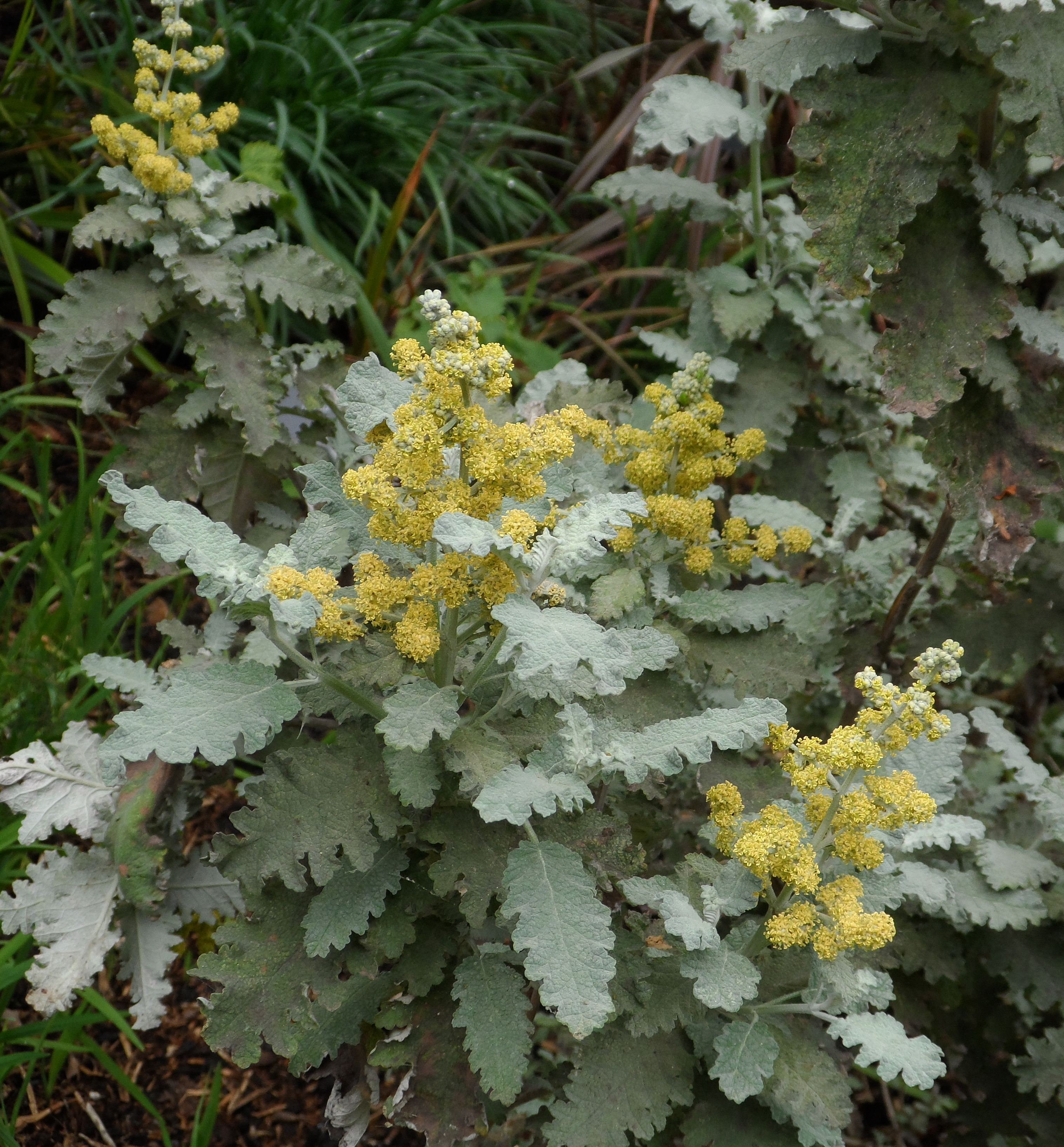 Flowers and foliage; taken at the Royal College of Physicians Garden, near Regents Park, London.